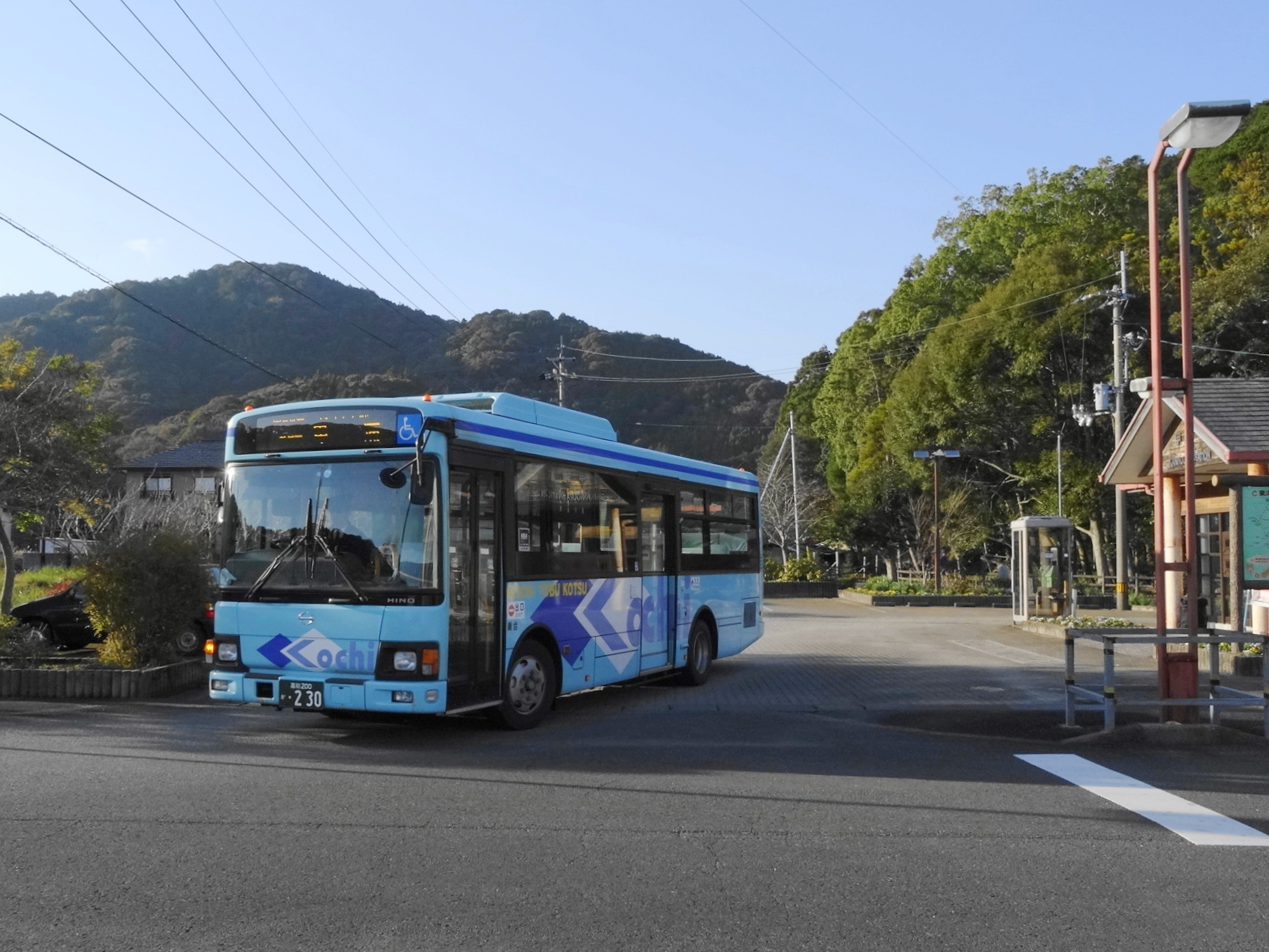 Aki Station - Nahari Station - Muroto - Kannnoura Station - Kannoura